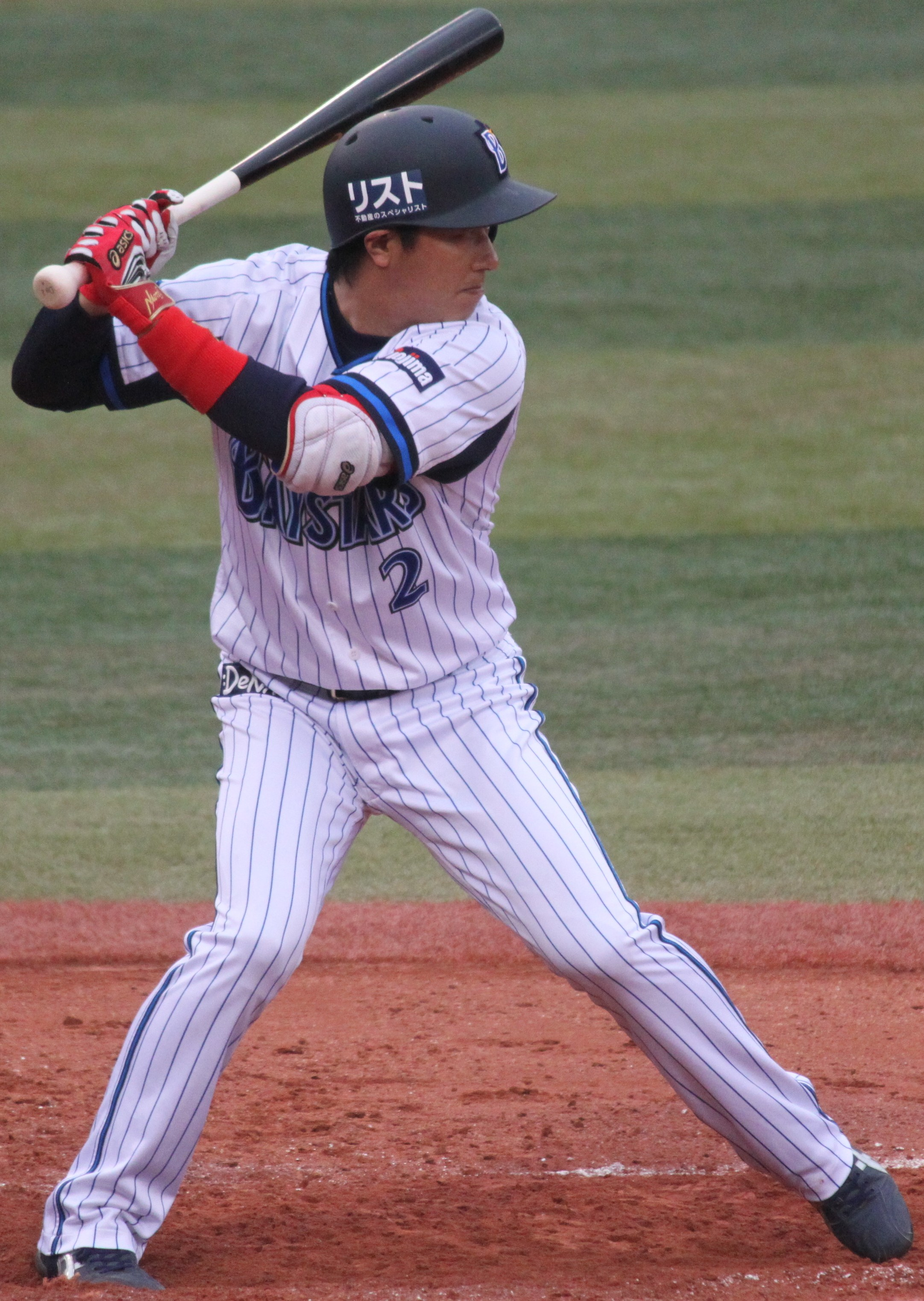 Naoto Watanabe, infielder of the Yokohama DeNA BayStars, at Yokohama Stadium.